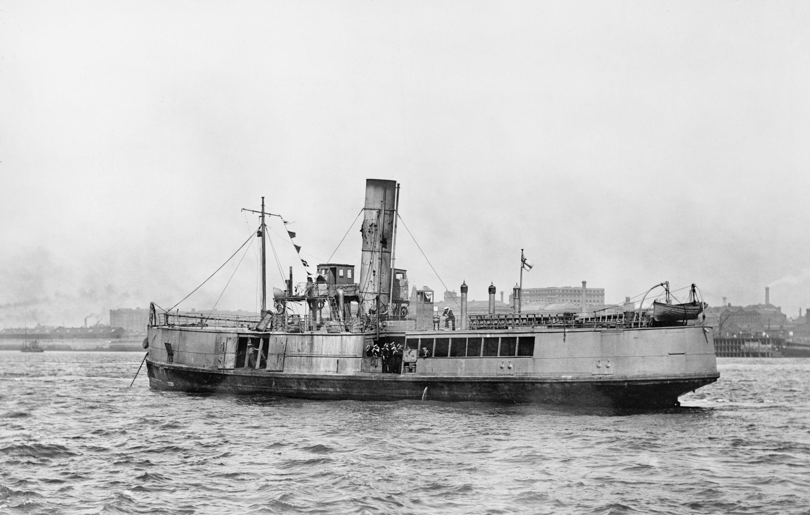 HMS IRIS II on her return to Liverpool following the Zeebrugge Raid.